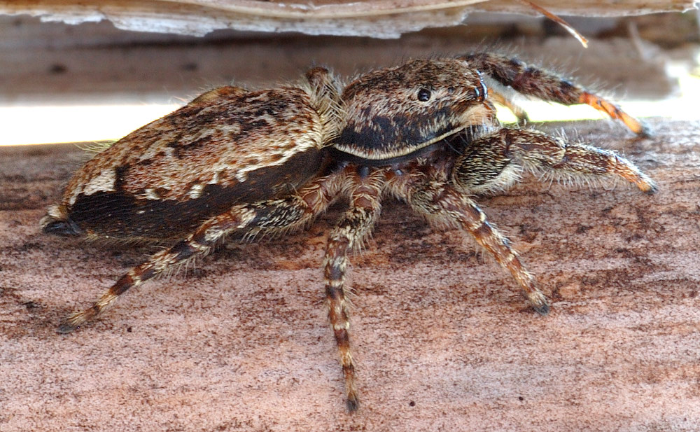 This image shows an about 10 mm large Marpissa muscosa jumping spider.